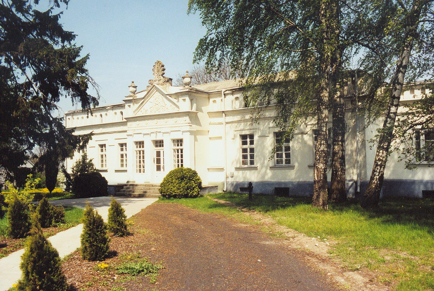 Krzywosądz, manor house of Modlińscy family